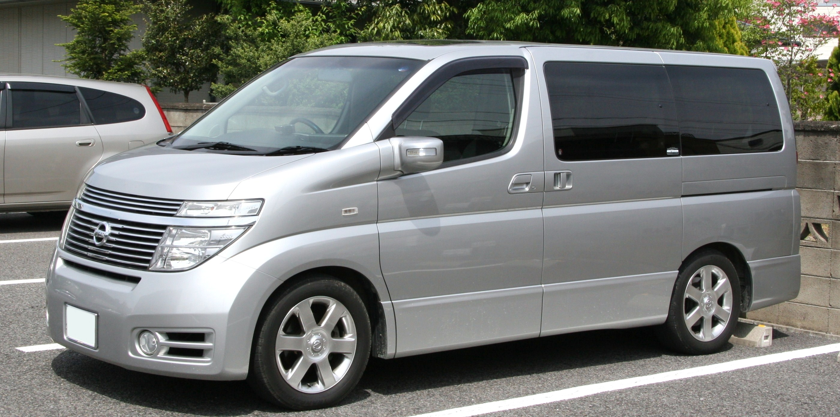 NISSAN ELGRAND